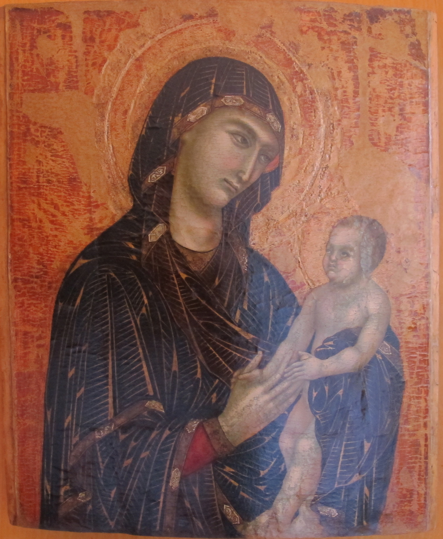 Painting in the National Pinacotheque, Siena